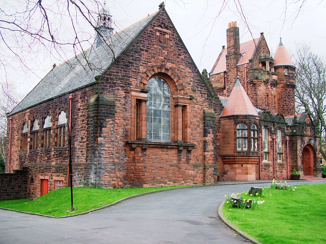 This is my own photograph